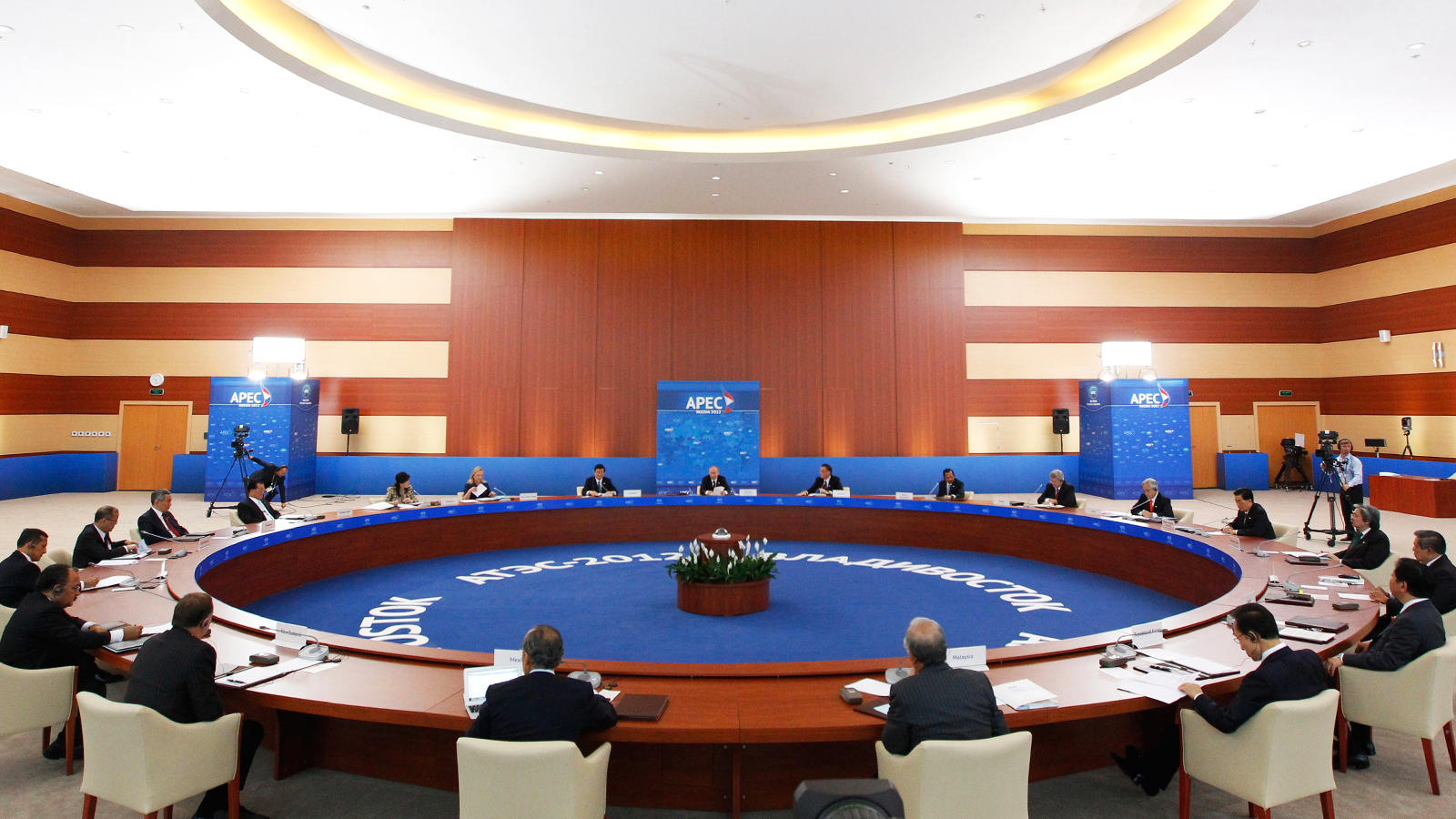 First working session of the APEC Economic Leaders’ Meeting in Vladivostok.